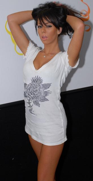 Paulina James at Protecting Adult Welfare event, September 1, 2007